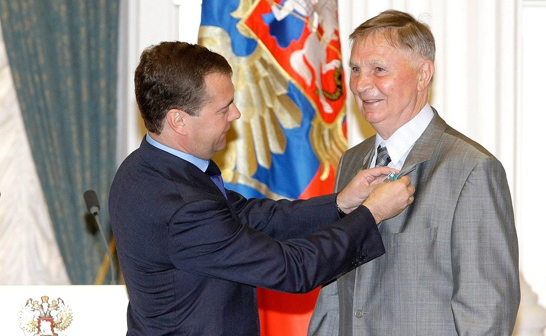 Russian President Dmitry Medvedev and hockey coach Viktor Tikhonov